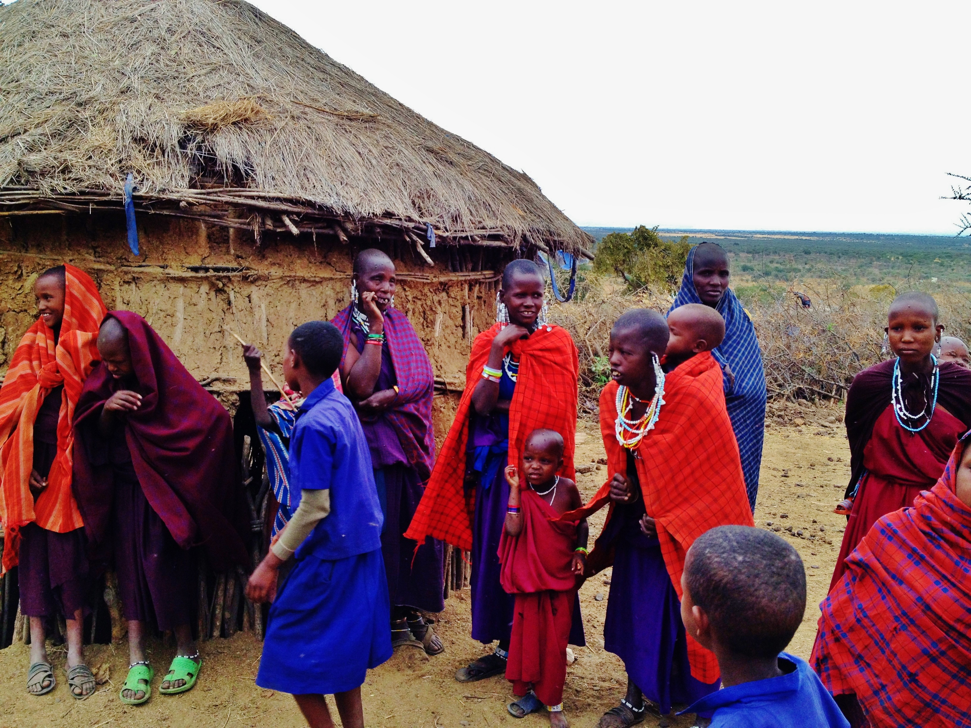 Massai people in their village